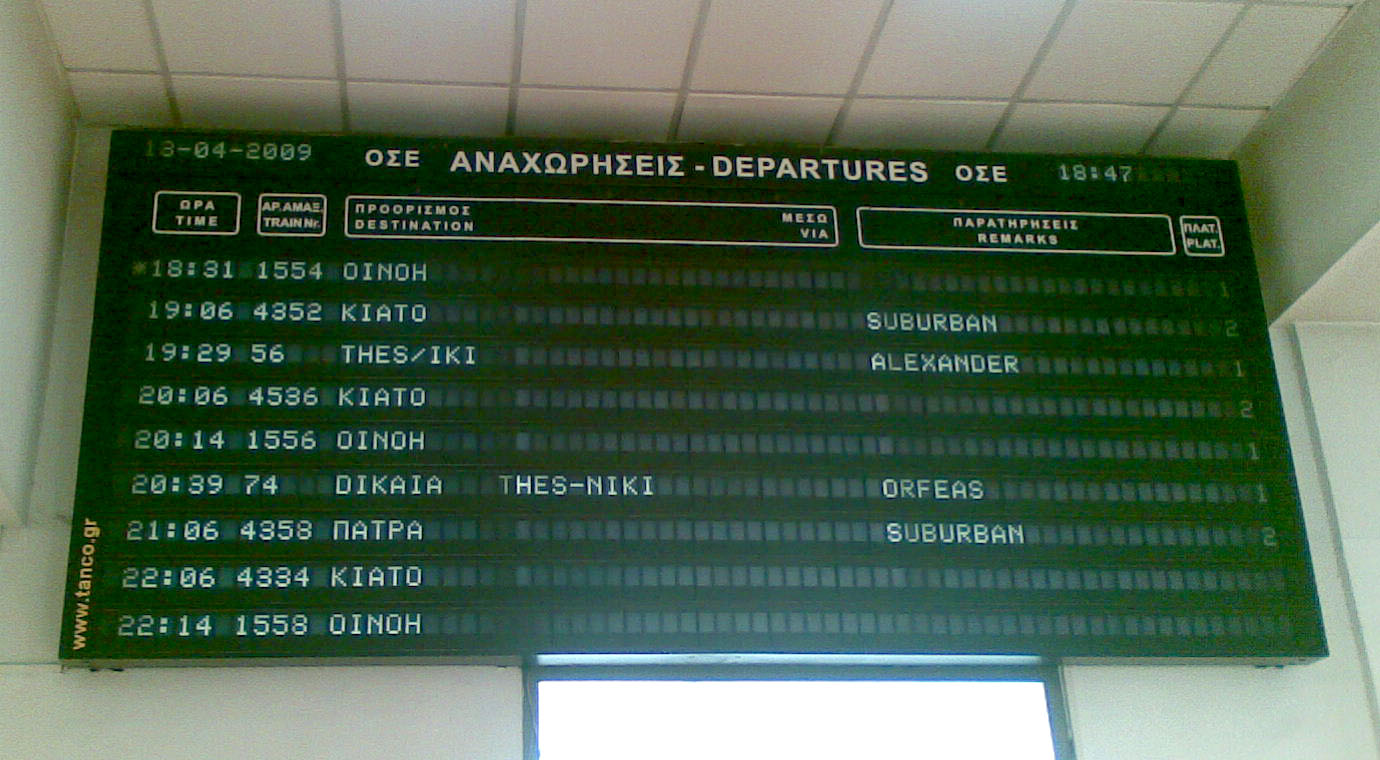 Departures board at Athens Central Railway Station